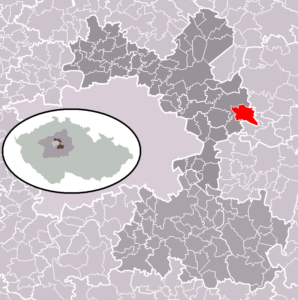 Location of Mochov municipality within Prague-East District and administrative area of Brandýs nad Labem-Stará Boleslav as a Municipality with Extended Competence.